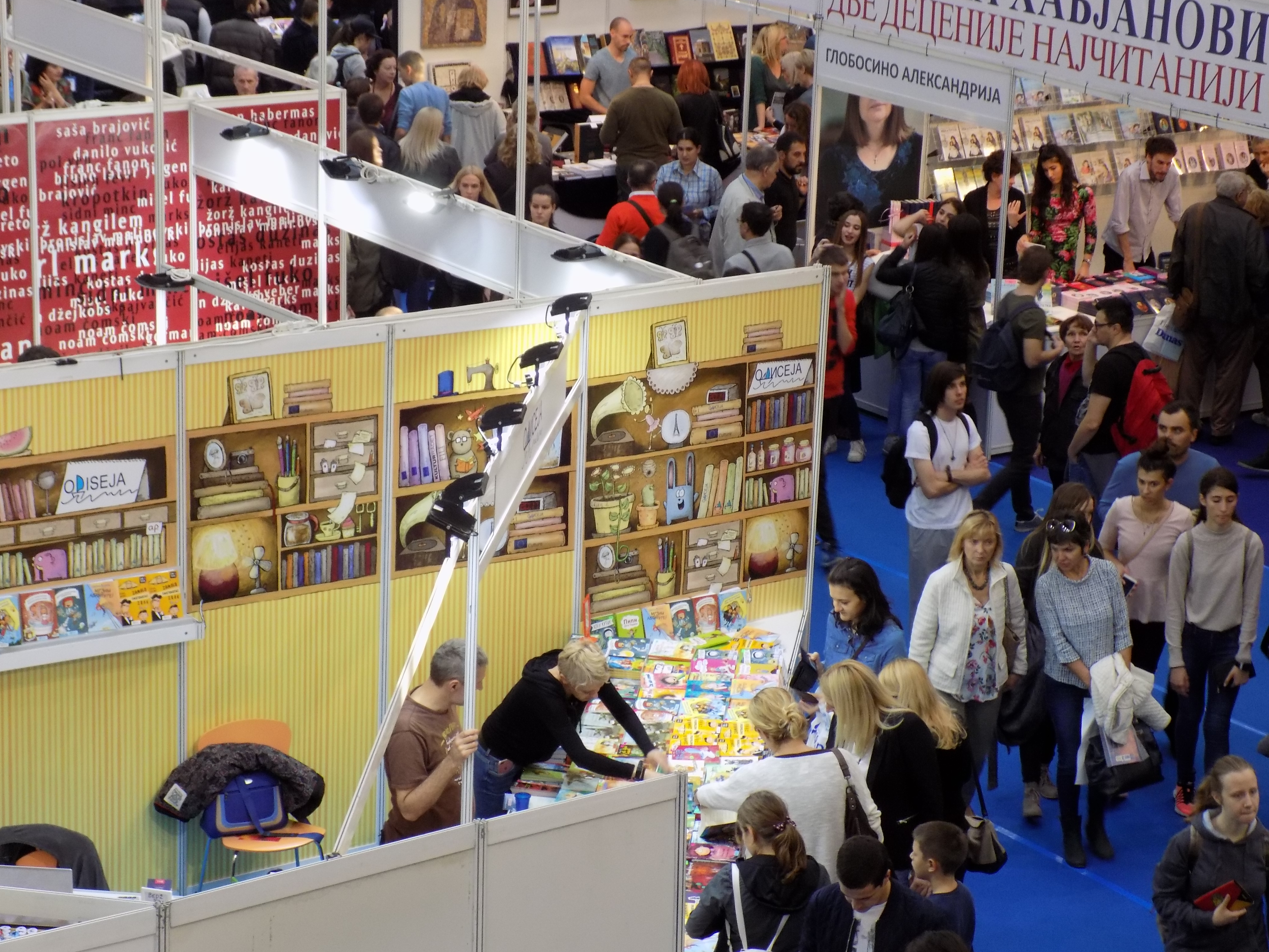 International Belgrade Book Fair 2017.